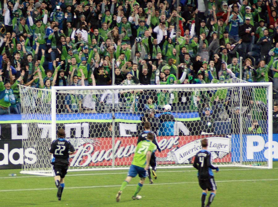 Seattle Sounders score a second goal against San Jose Earthquakes at Qwest Field.